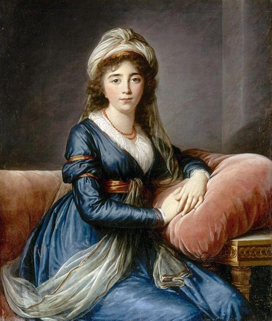 Countess Ecaterina Vladimirovna Apraxine, nee Princess Galitzine (1768-1854)